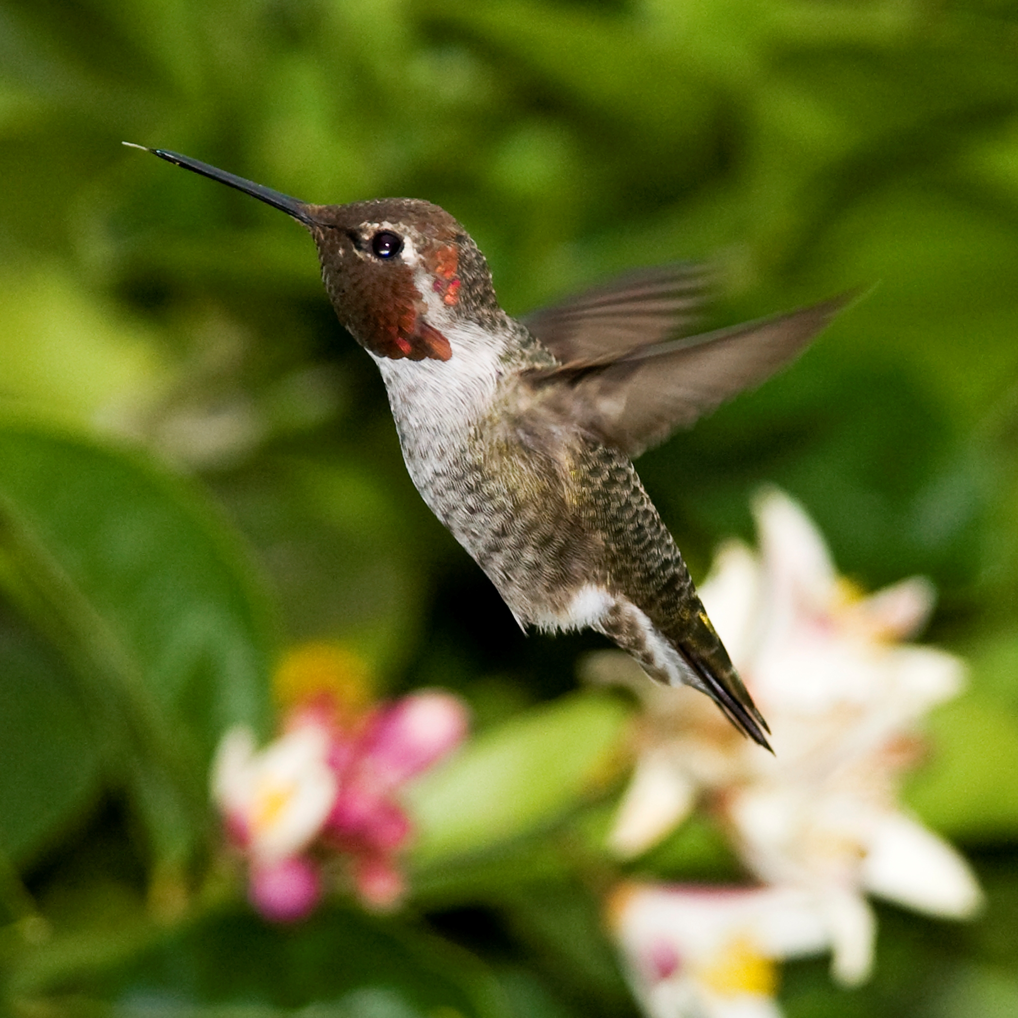 Male Anna's Hummingbird (Calypte anna) in-flight in my front yard. Taken with Canon 1D Mark III, 300mm f/2.8L IS + 1.4 TC and EX580 flash ETTL Mode FEC 0, manual meter mode -2 stops to let the flash fill the frame. Letting the flash provide most of the light the wings are almost frozen at 1/1250 sec. shutter speed. Handheld, subject distance 10 feet. 40% crop.